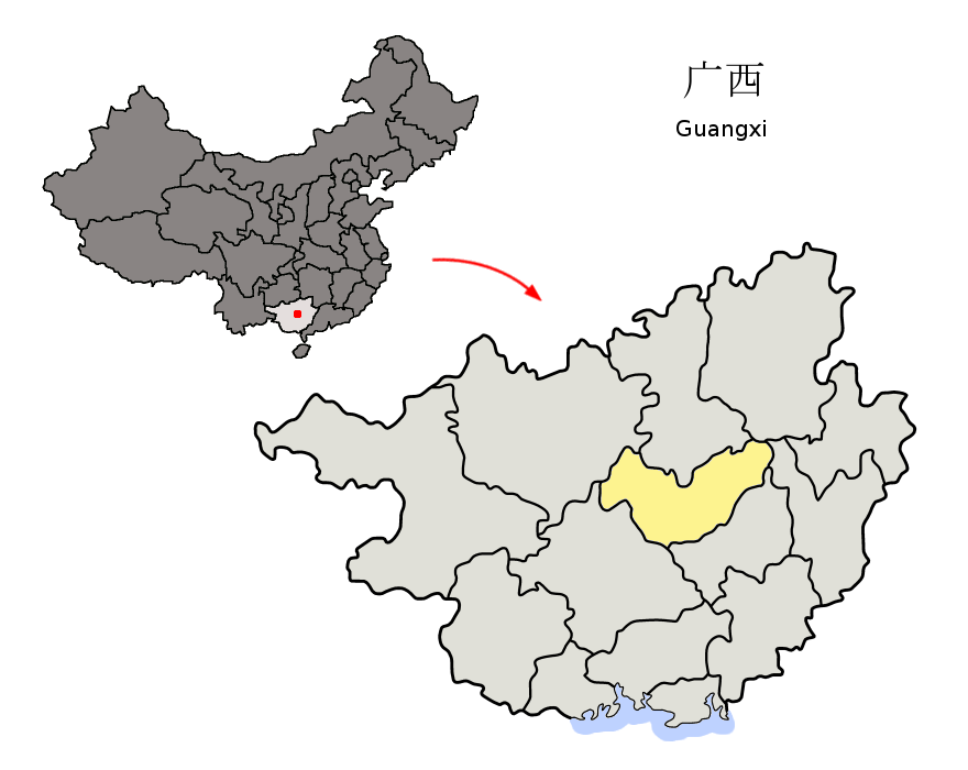 Location of Laibin Prefecture (yellow) within Guangxi Autonomous Region of China Map drawn in november 2007 using various sources, mainly : Guangxi Autonomous Region administrative regions GIS data: 1:1M, County level, 1990 Guangxi Counties map from